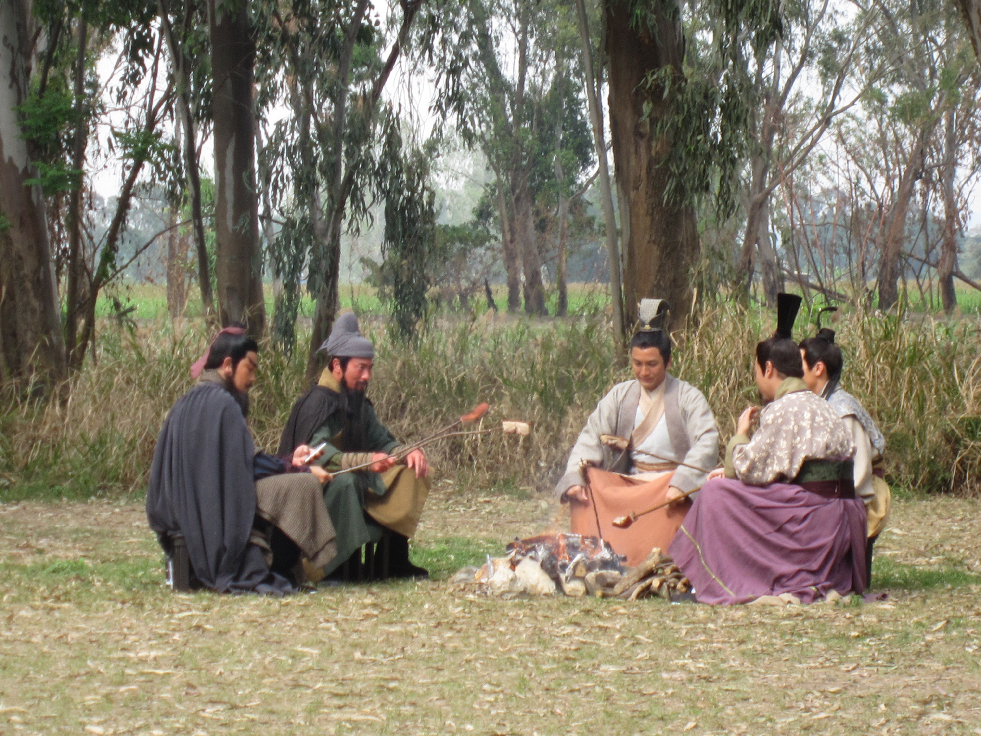 Back to the Three Kingdoms